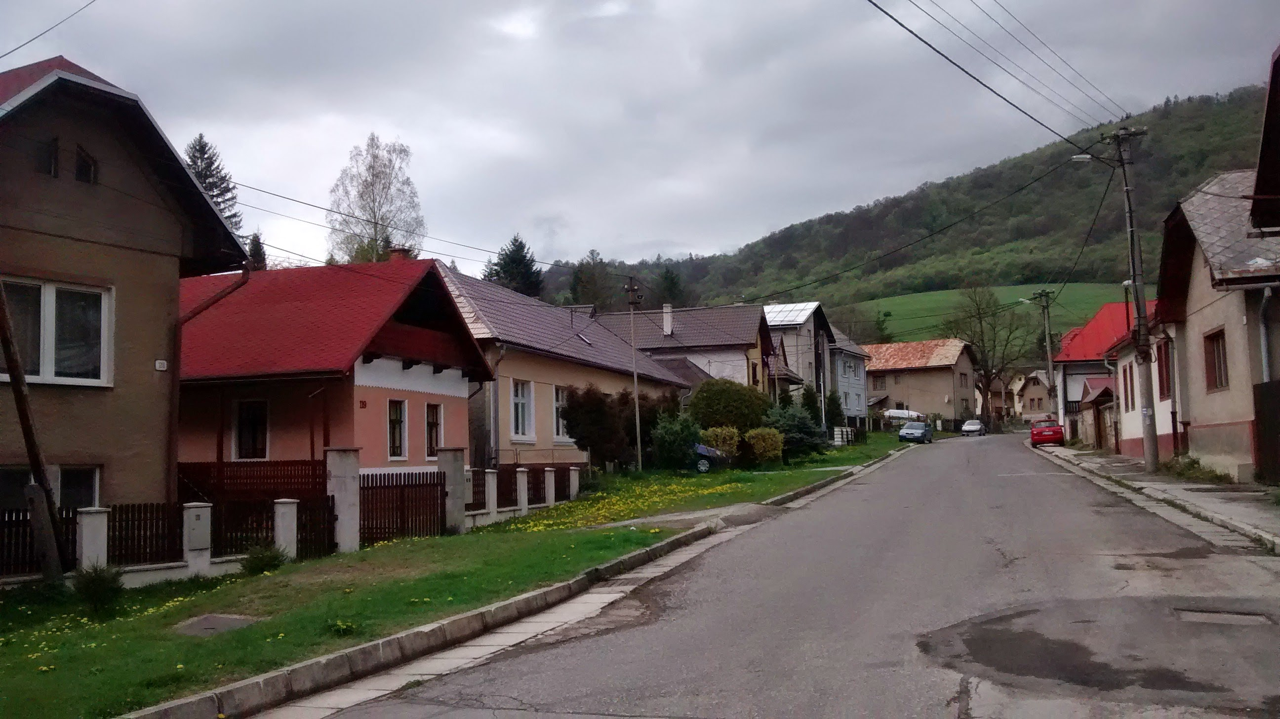 Raztoka